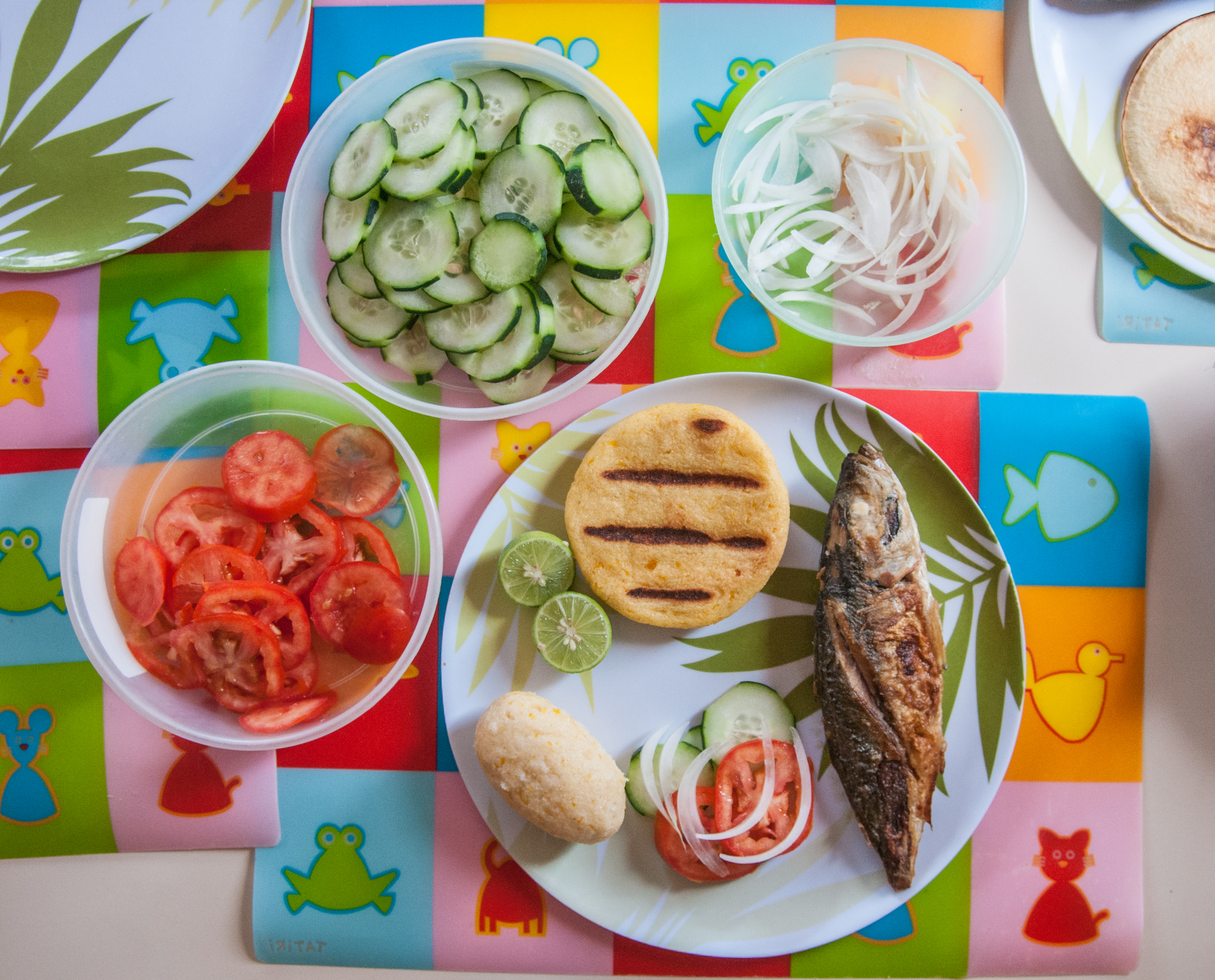 Typical Food in Margarita Island